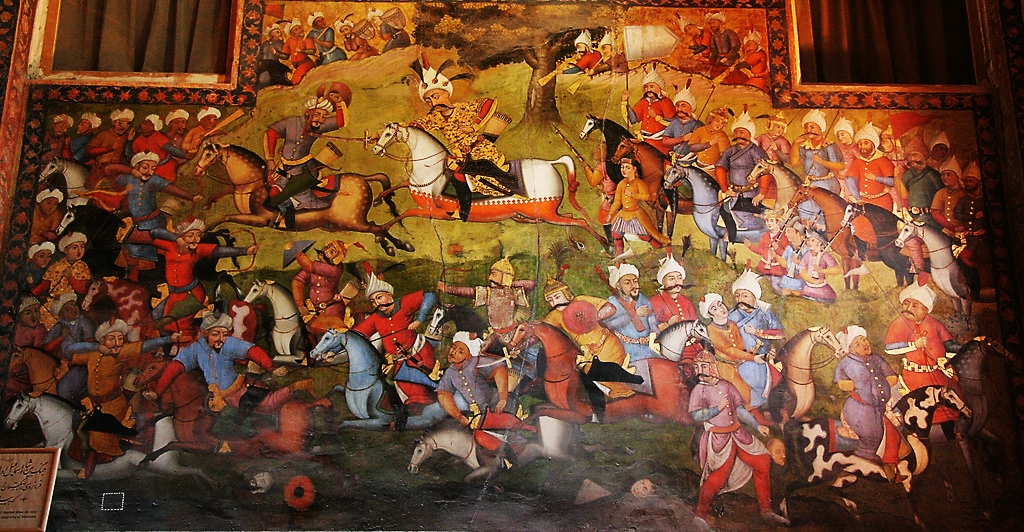 Battle of Marv (1510) between Shāh Ismā'īl and Shaybāni Khān. From Chehel Sotoun palace, Isfahan.